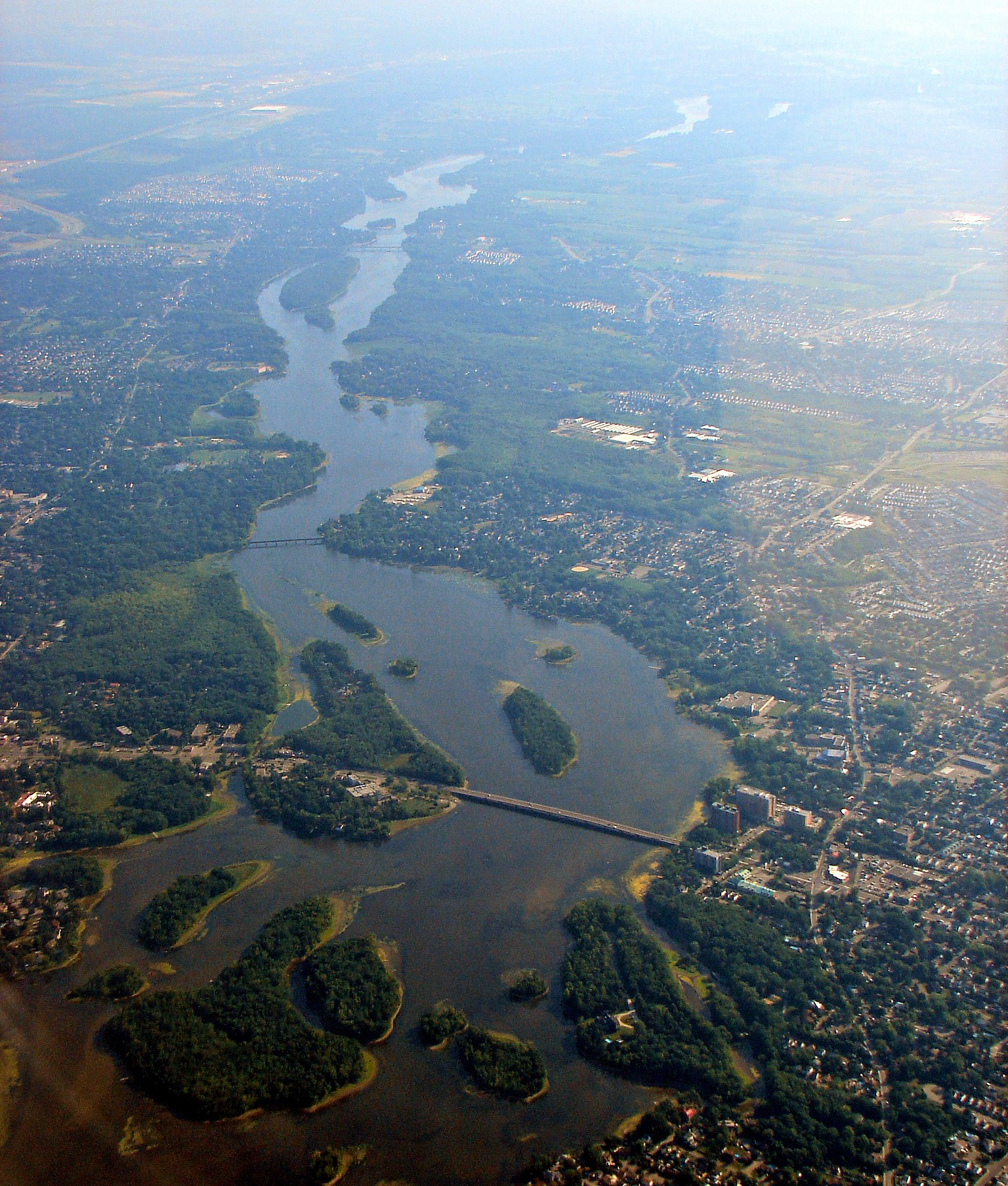 Rivière des Mille Îles (Thousand Islands River), Quebec, Canada. In the foreground is the Marius-Dufresne Bridge connecting Laval and Rosemère, part of Route 117.